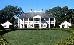 A picture of Evergreen Plantation in Wallace, Louisiana from the National Historic Landmarks collection.